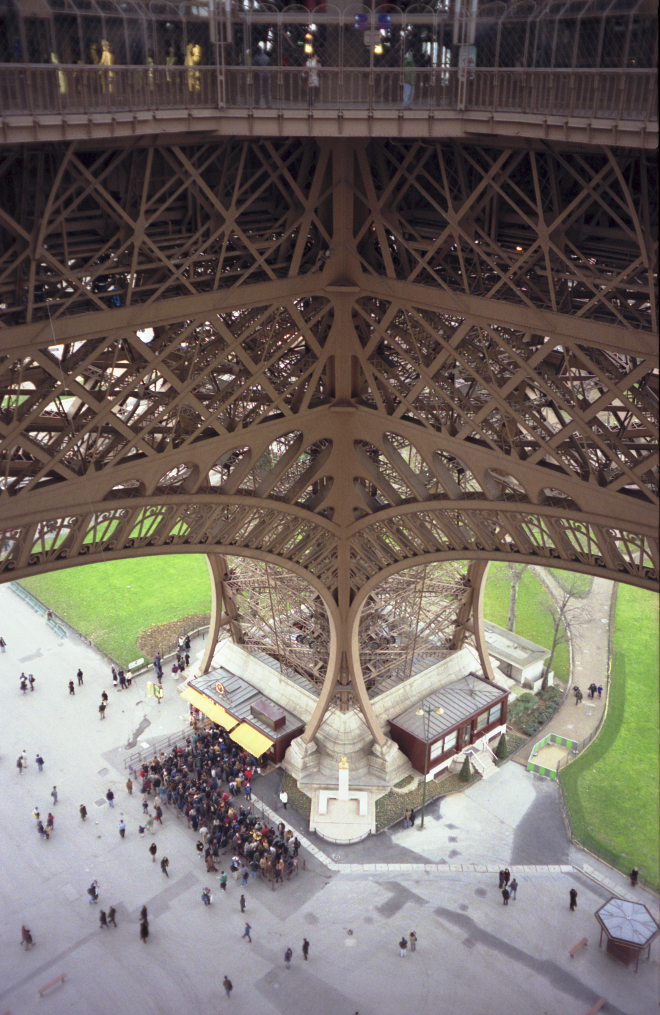 Foot of the Eiffel Tower, Paris.